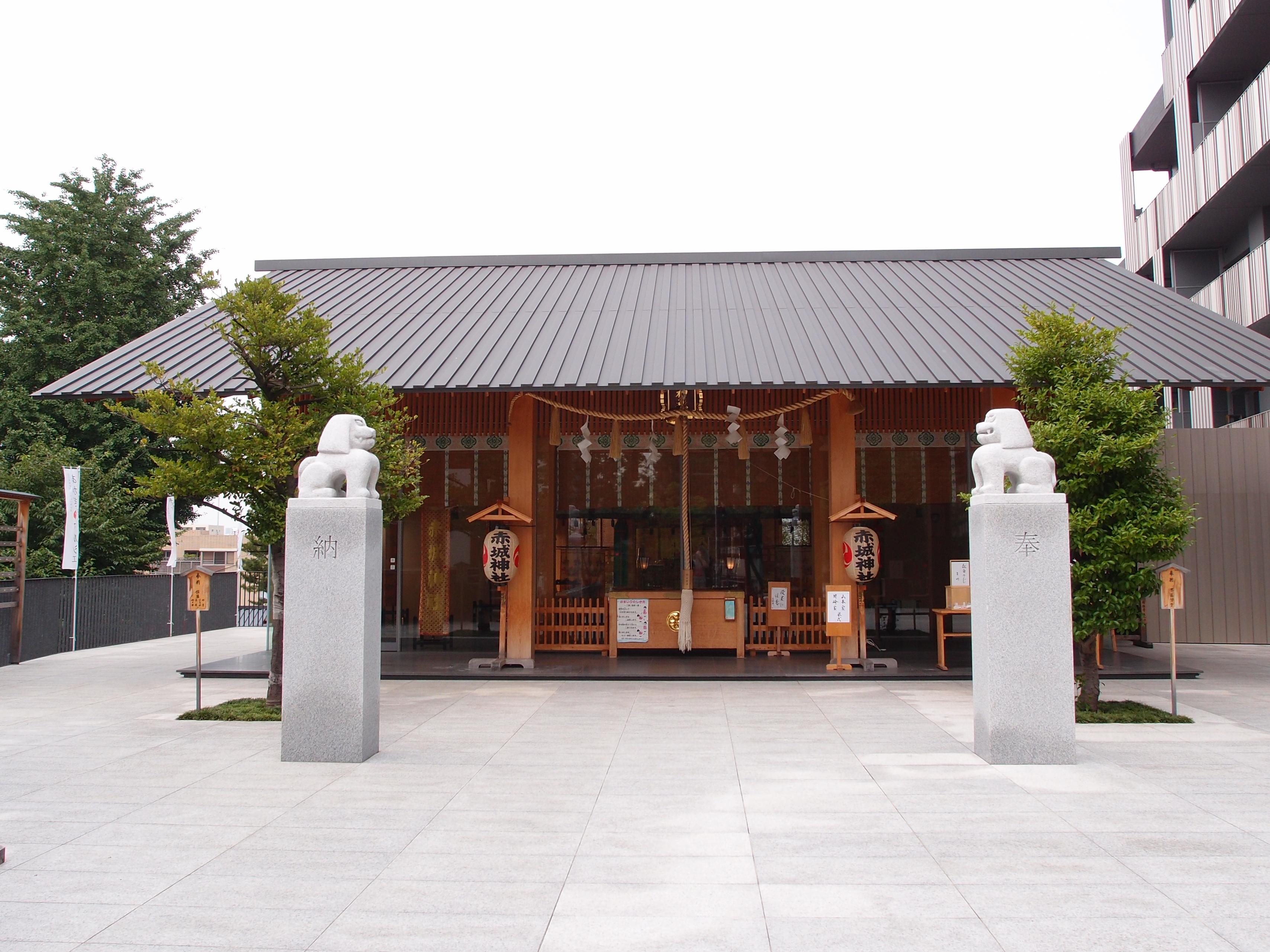 Akagi jinja, Kagurazaka, Shinjuku, Tokyo